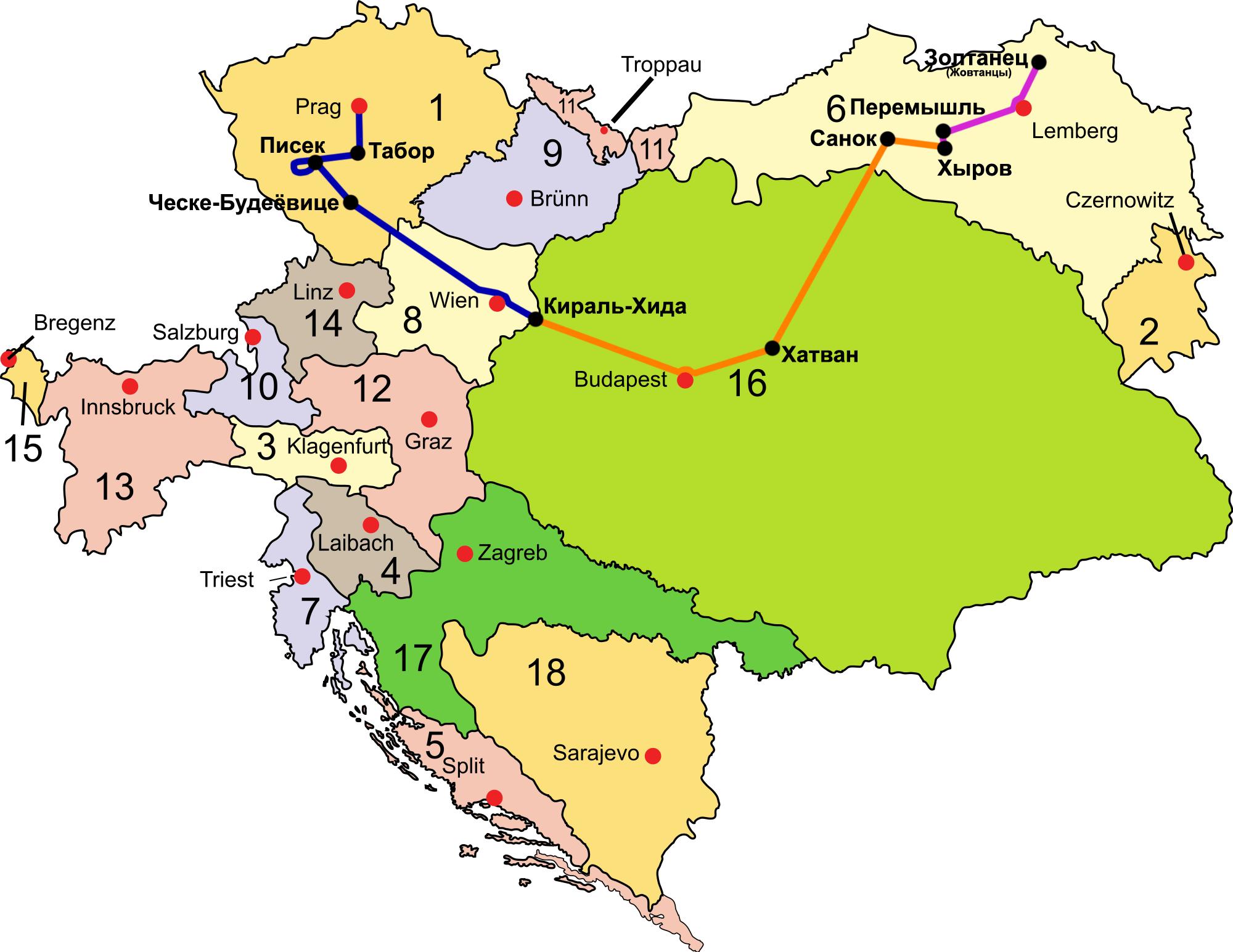 Route of The Good Soldier Švejk (in Russian)